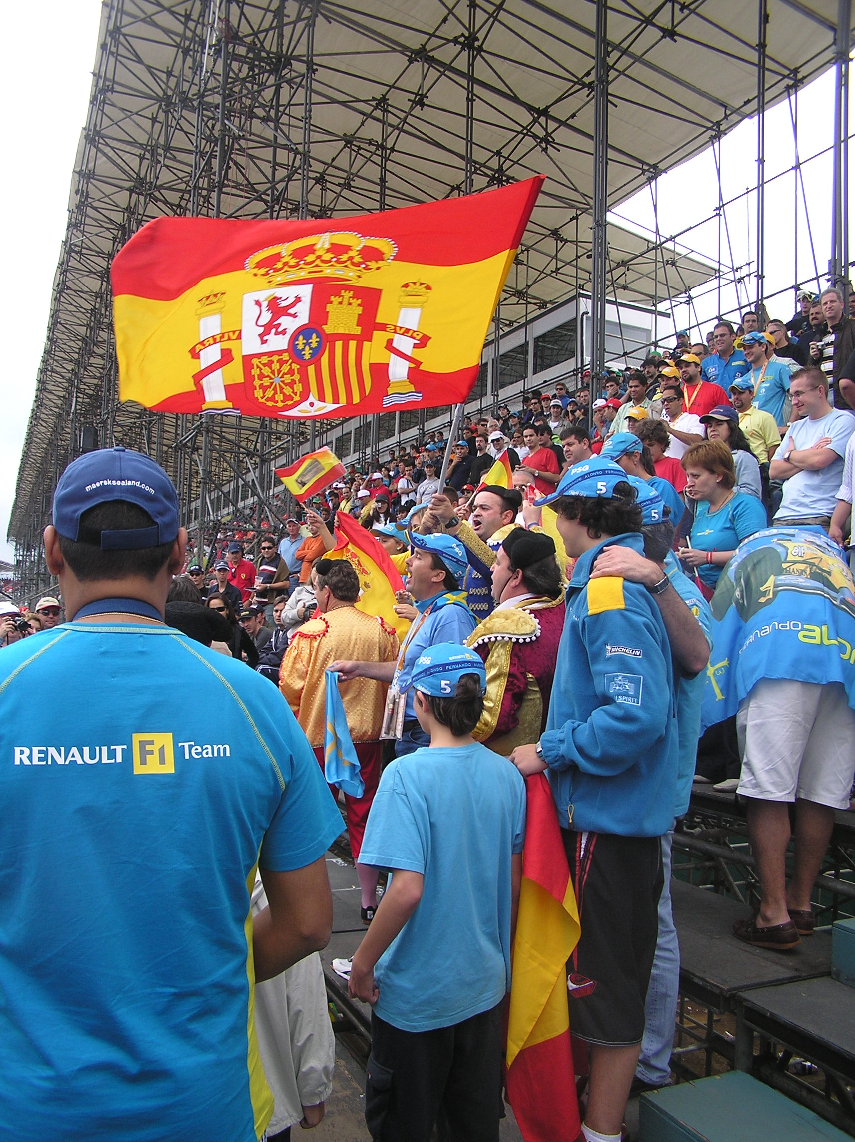 The fans who aid Fernando Alonso at the 2005 Brazil Grand Prix. They have come from Spain to see the moment when Alonso becomes the world champion.